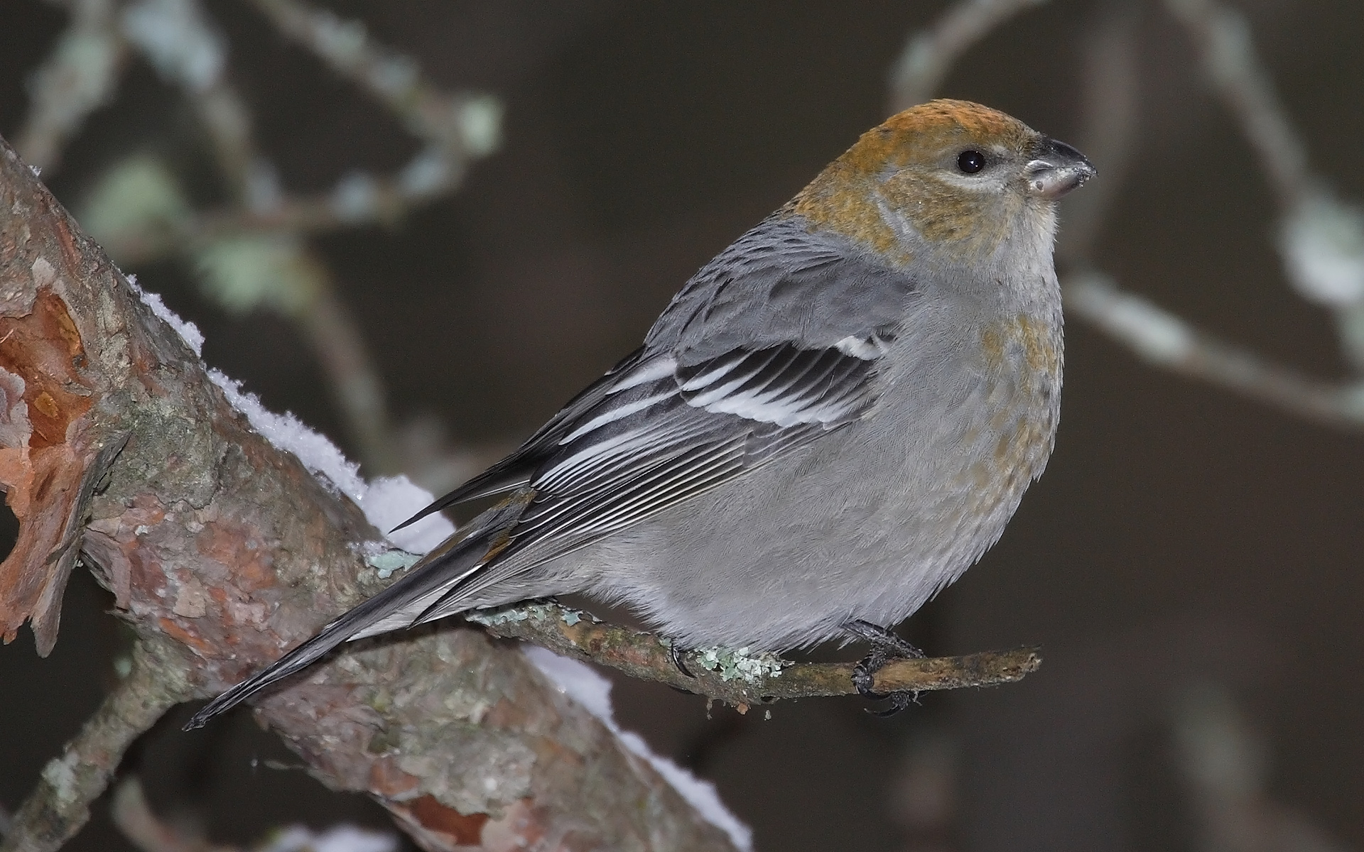 Pine Grosbeak (female) -- Algonquin Provincial Park -- 2007 December